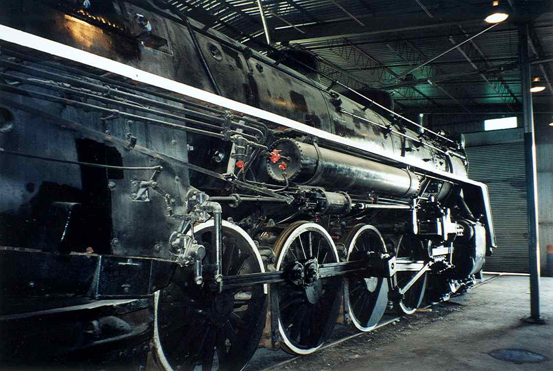 CNR locomotive no. 6153 "Northern" 4-8-4 class U-2-c at Delson, QC (Montreal Locomotive Works #67782 of 1929).